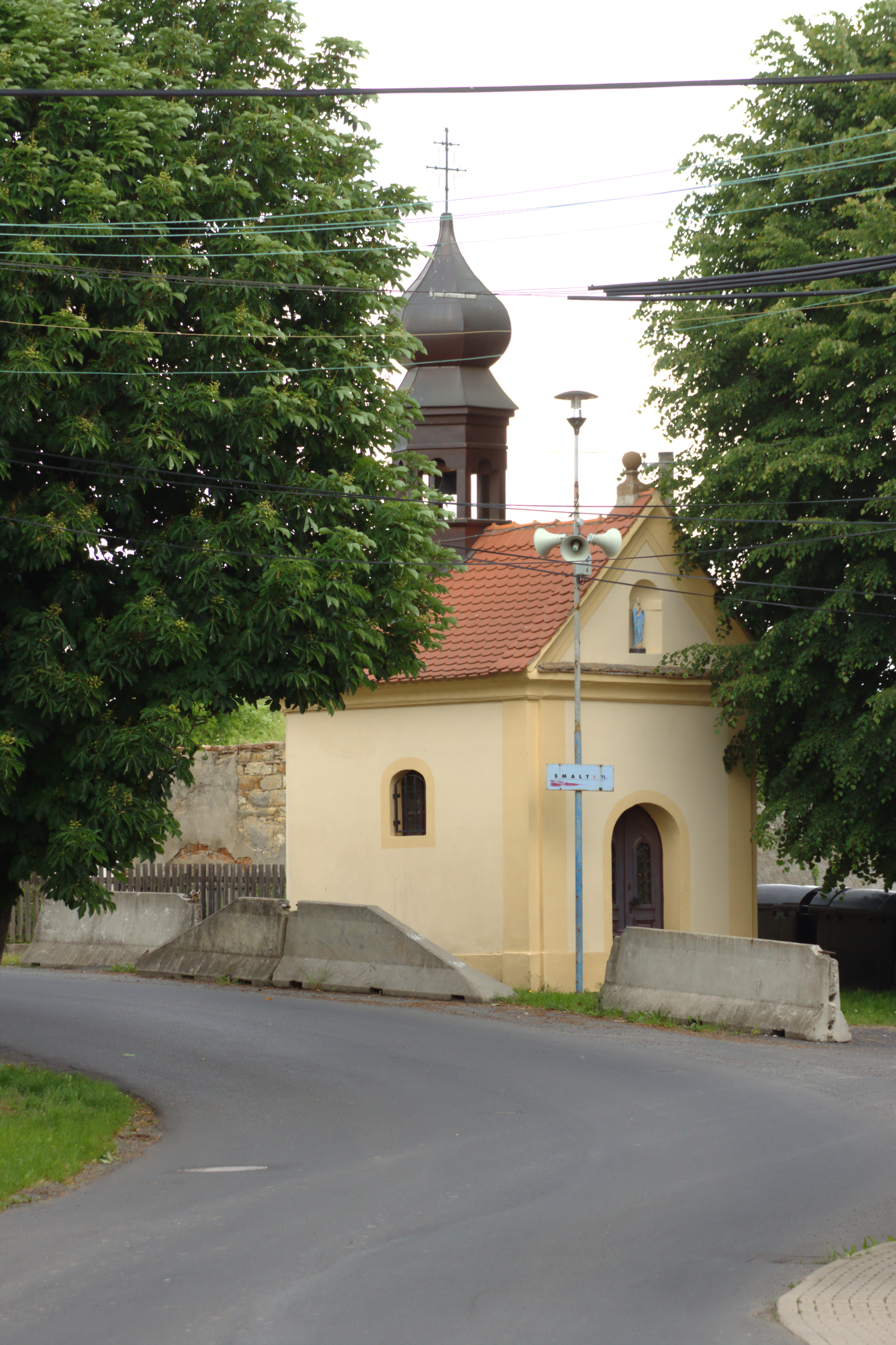 A chapel in Chotiměř, Ústí Region, CZ